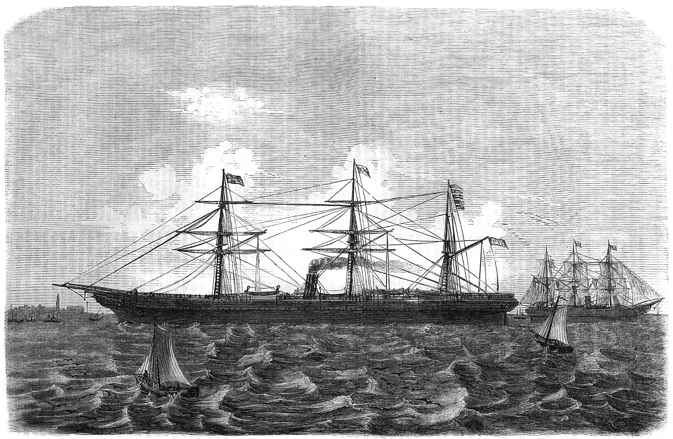 caption: "Der Postdampfer „Austria“ vor dem Brande."